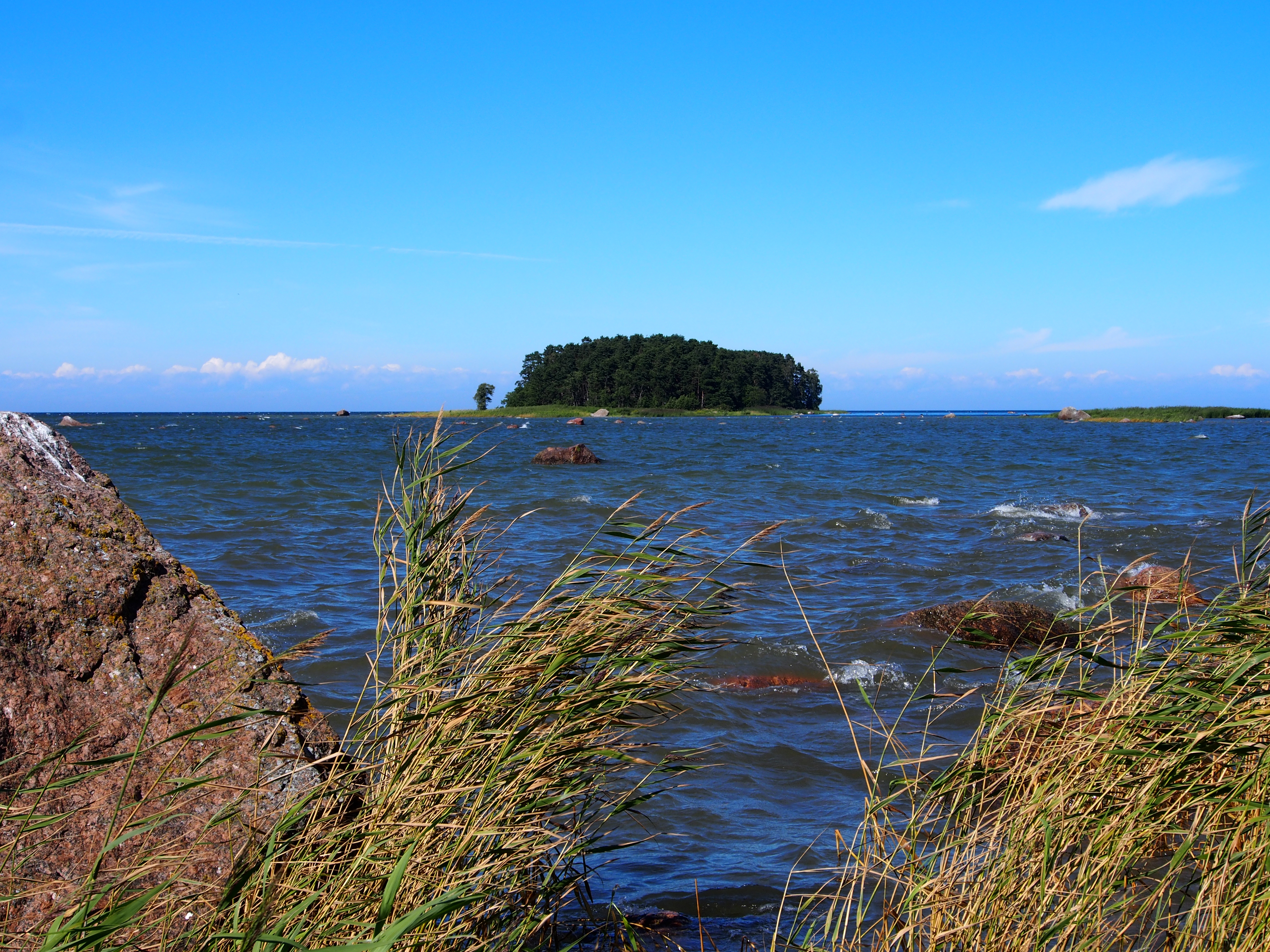 Saartneem (also Kuradisaar, devil's island) in the Käsmu Bay in Estonia